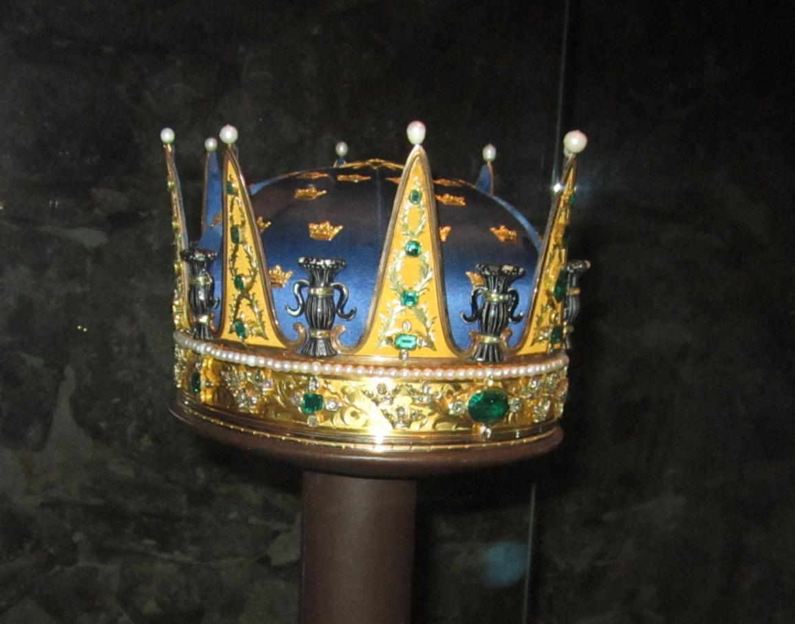 Coronet of a Prince of Sweden (made for Prince Frederick Adolph, Duke of East Gothland in the early 1770s) as shown to public on National DayPlace: Royal Treasury, Stockholm Palace, Sweden